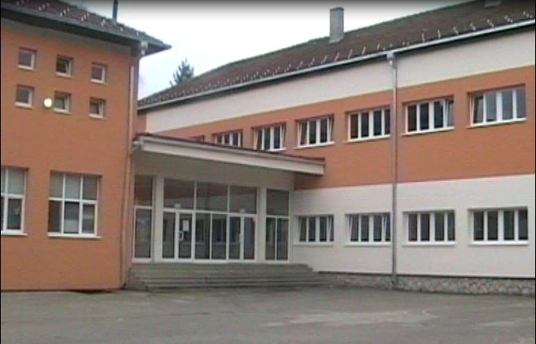 dgdgdgdg